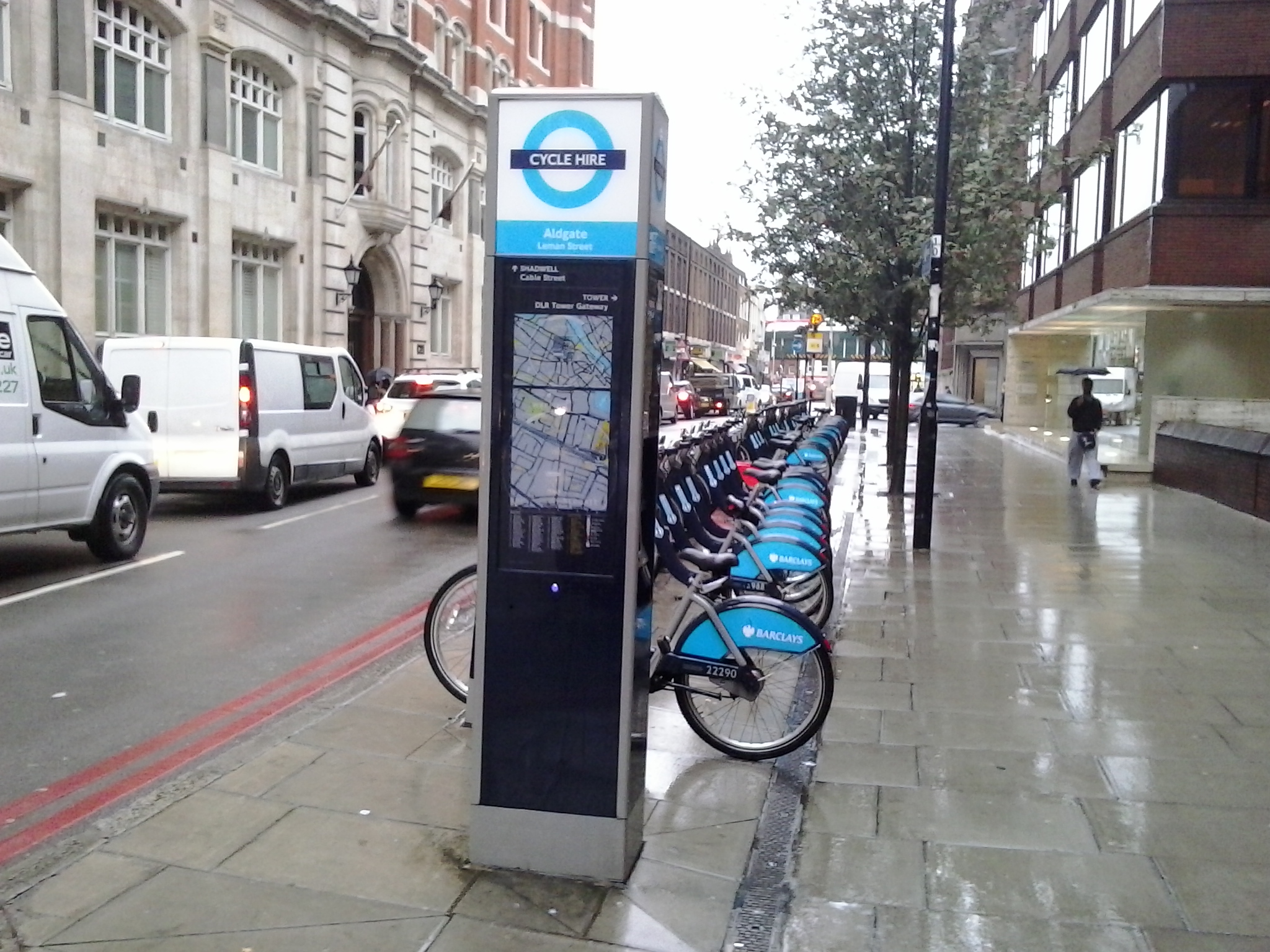 Cycle Hire at Leman Street, London